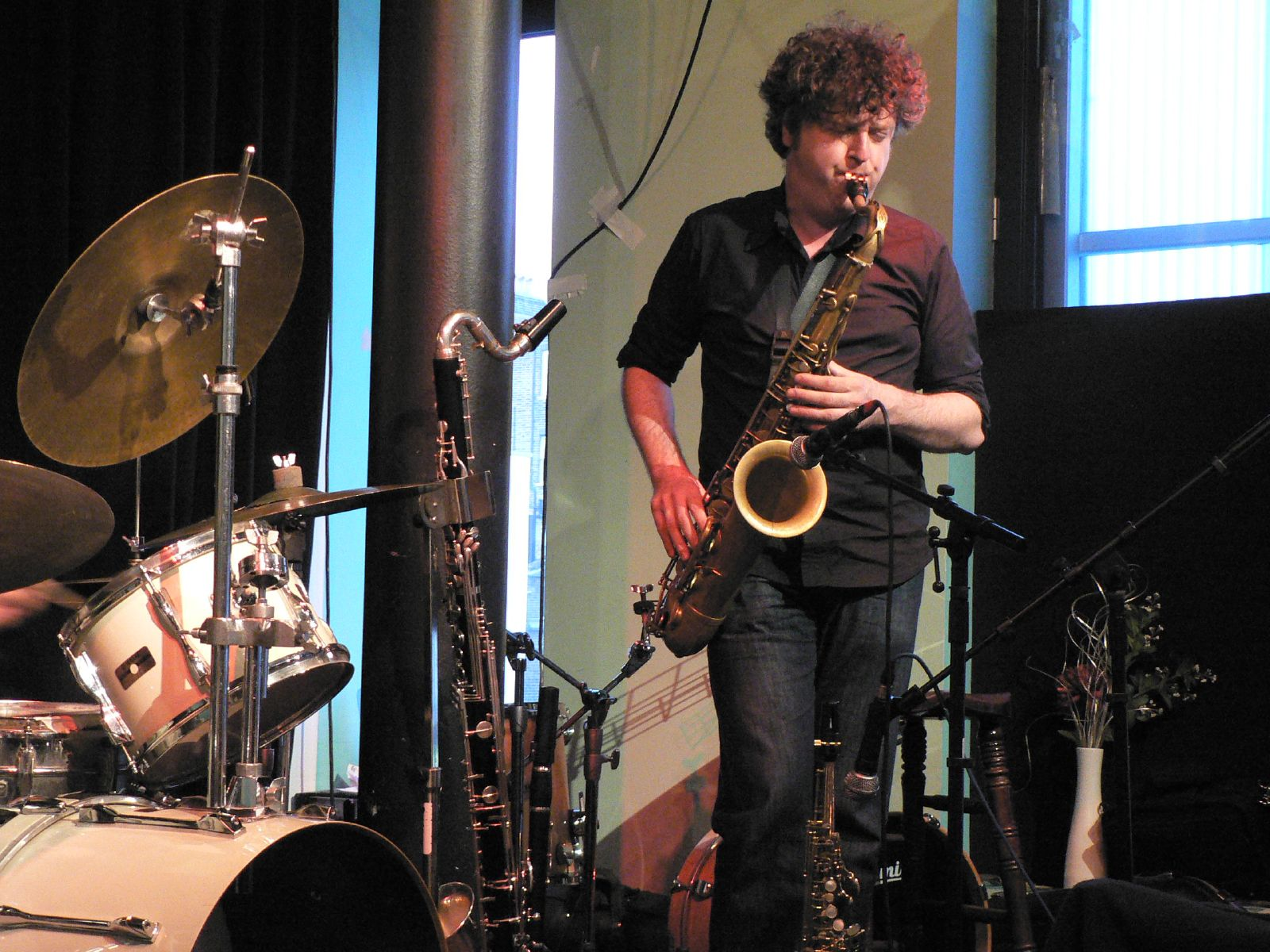 Saxophonist, Julian Siegel